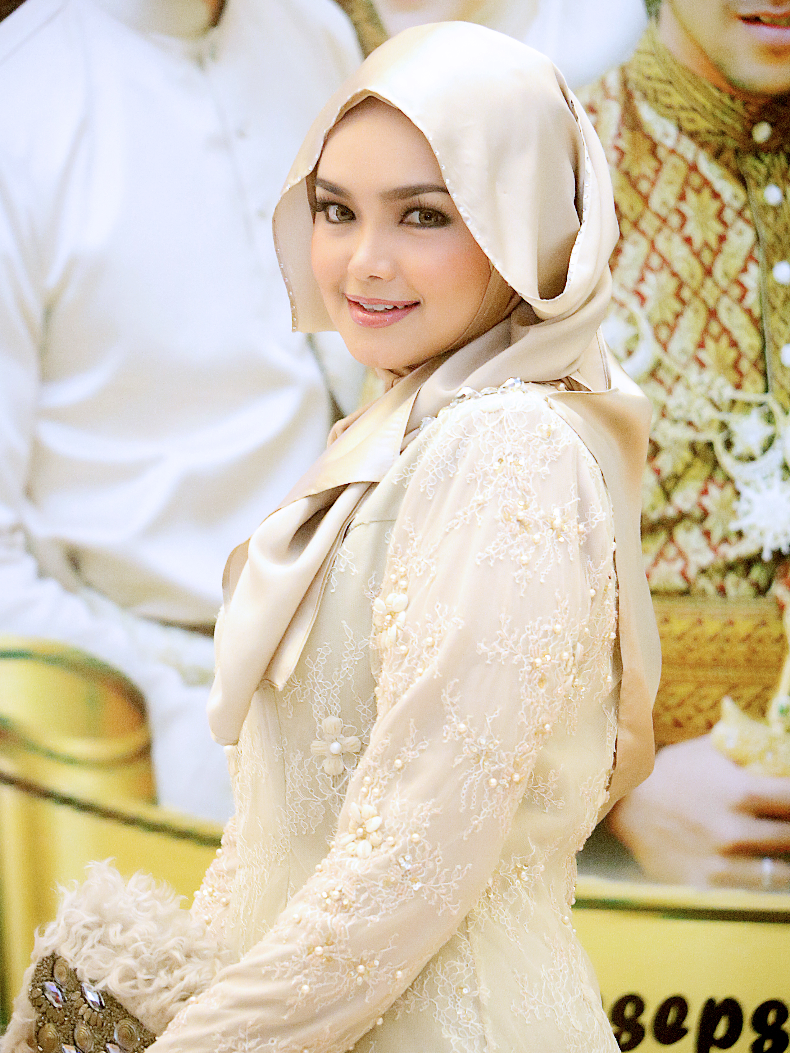 Siti Nurhaliza attending the wedding of a Malaysian footballer, Khairul Fahmi Che Mat on January 13, 2013 at Hotel The Royale Bintang, Damansara, Kuala Lumpur, Malaysia.